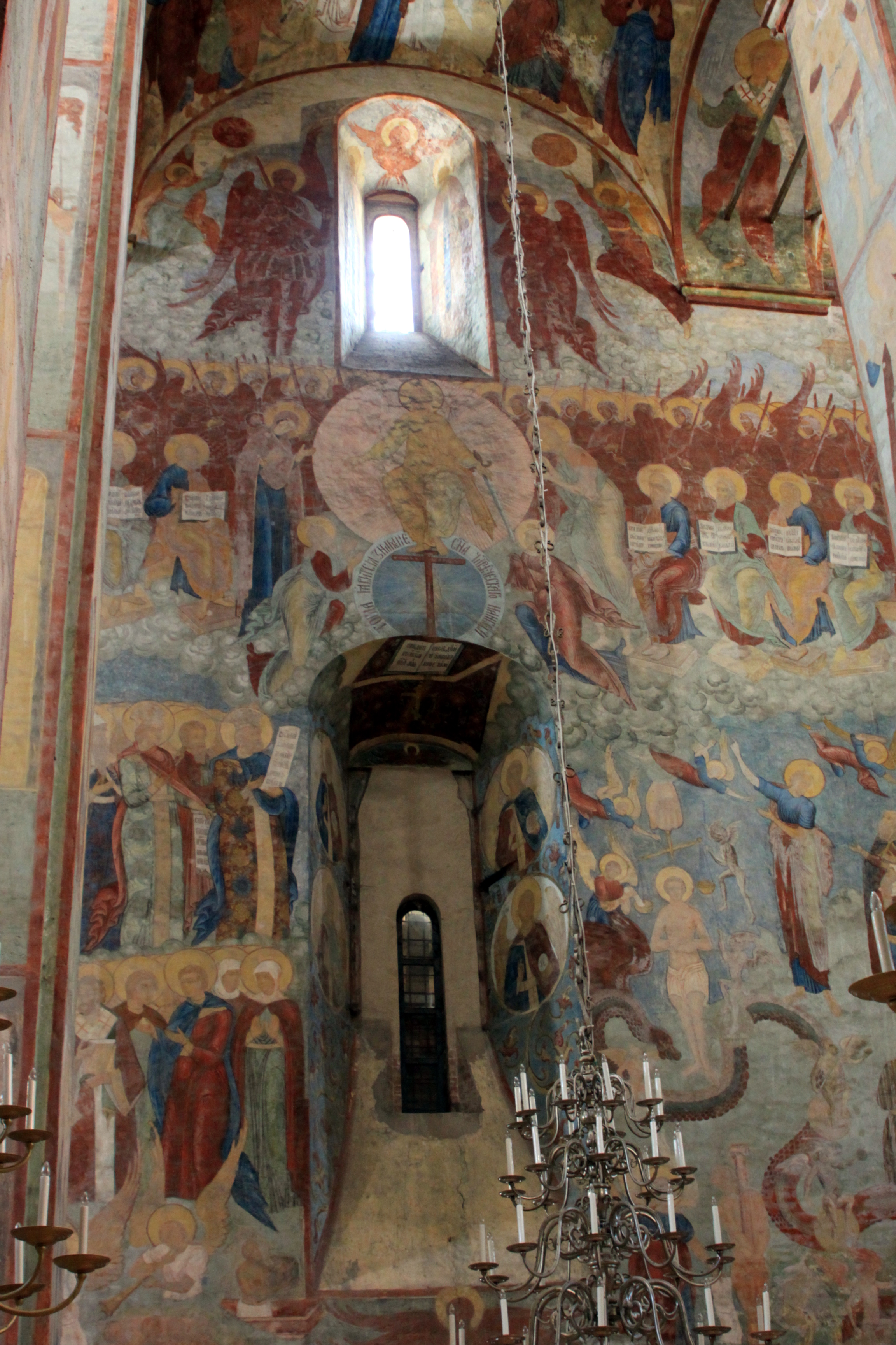 Last Judgment fresco in St. Sophia Cathedral, Vologda, 17 century